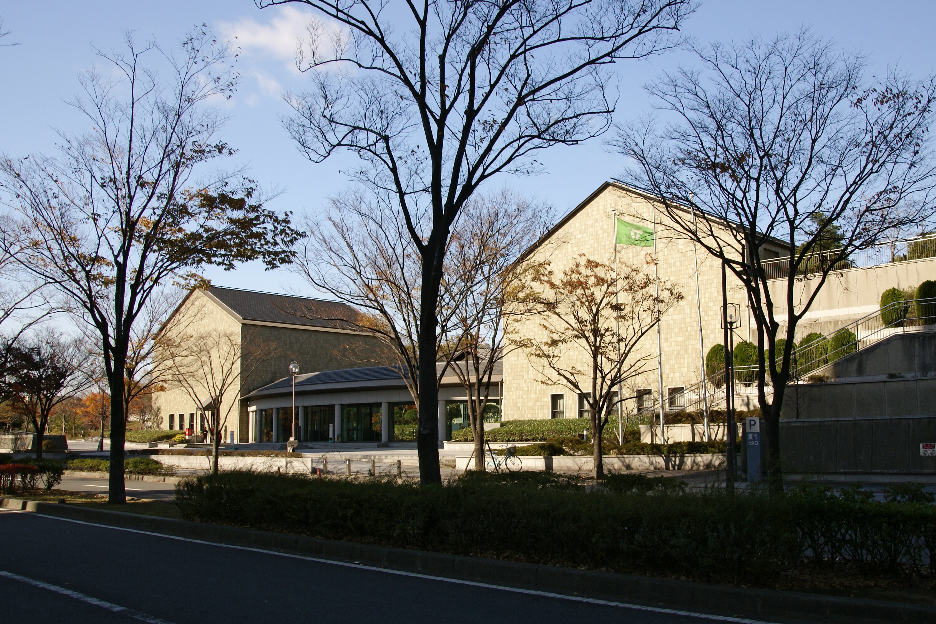 Kobe City Koiso Memorial Museum of Art in Rokko Island, Kobe, Hyogo prefecture, Japan